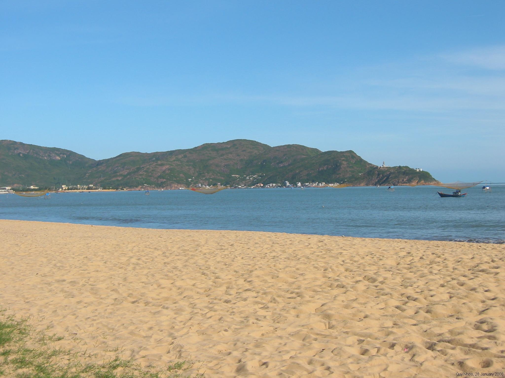 View of the beach at Quy Nhơn, Vietnam, in January 2008